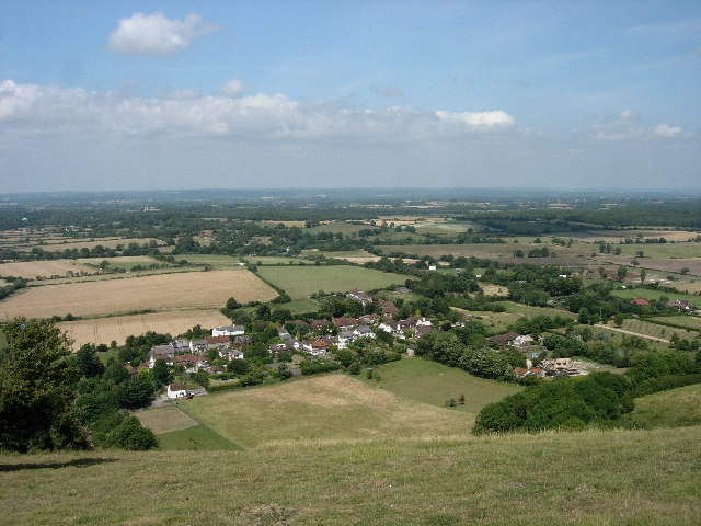 The view over Fulking from the South Downs Way